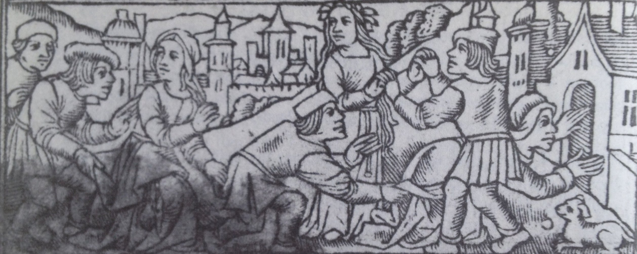 Detail from Phillippe Pigouchet's Heures a lusaige de Paris, 1497 showing people playing an arch game